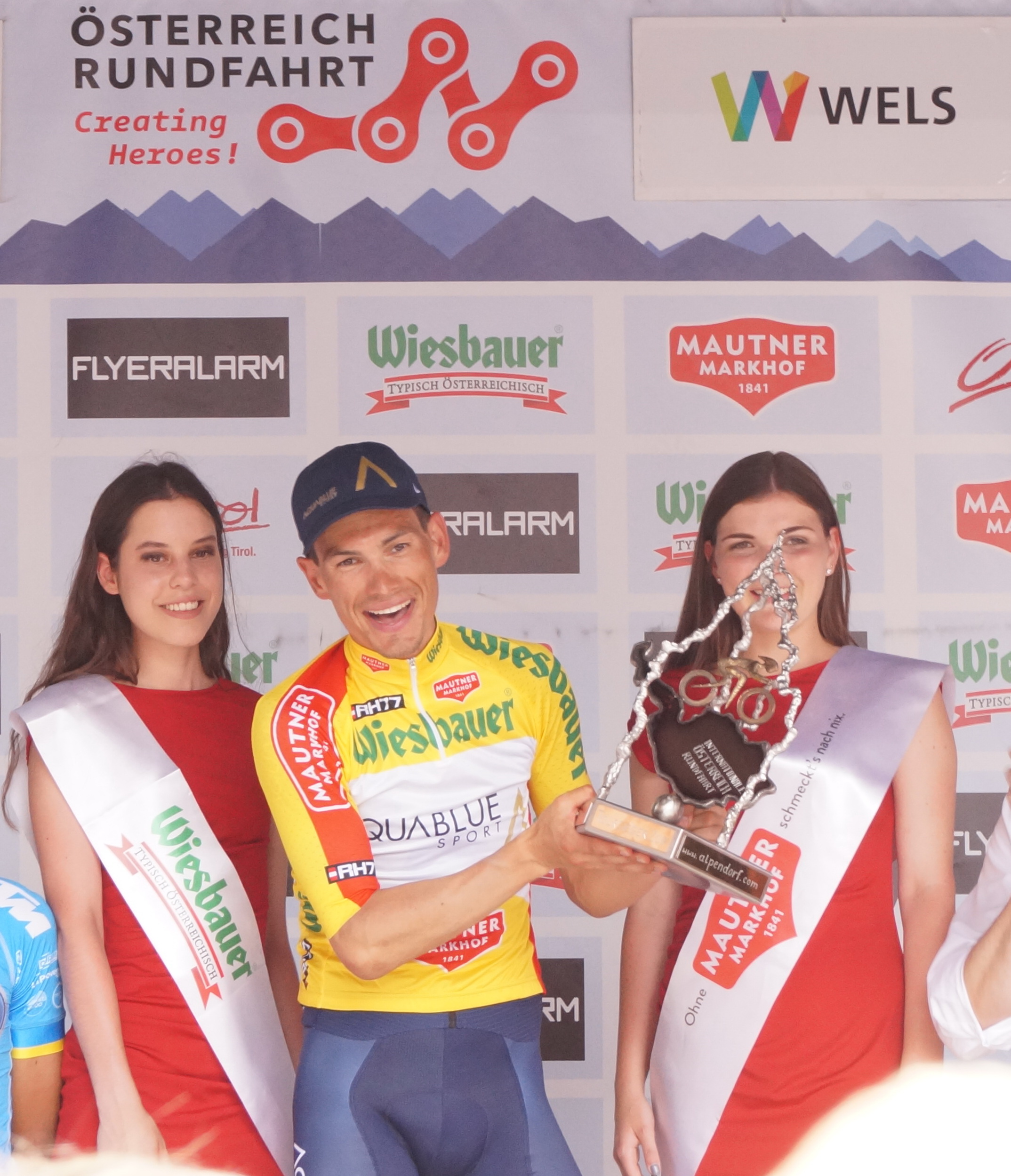 The Winner of the 2017 Tour of Austria GC, Stefan Denifl, presenting his trophy in Wels at July 8th 2017.